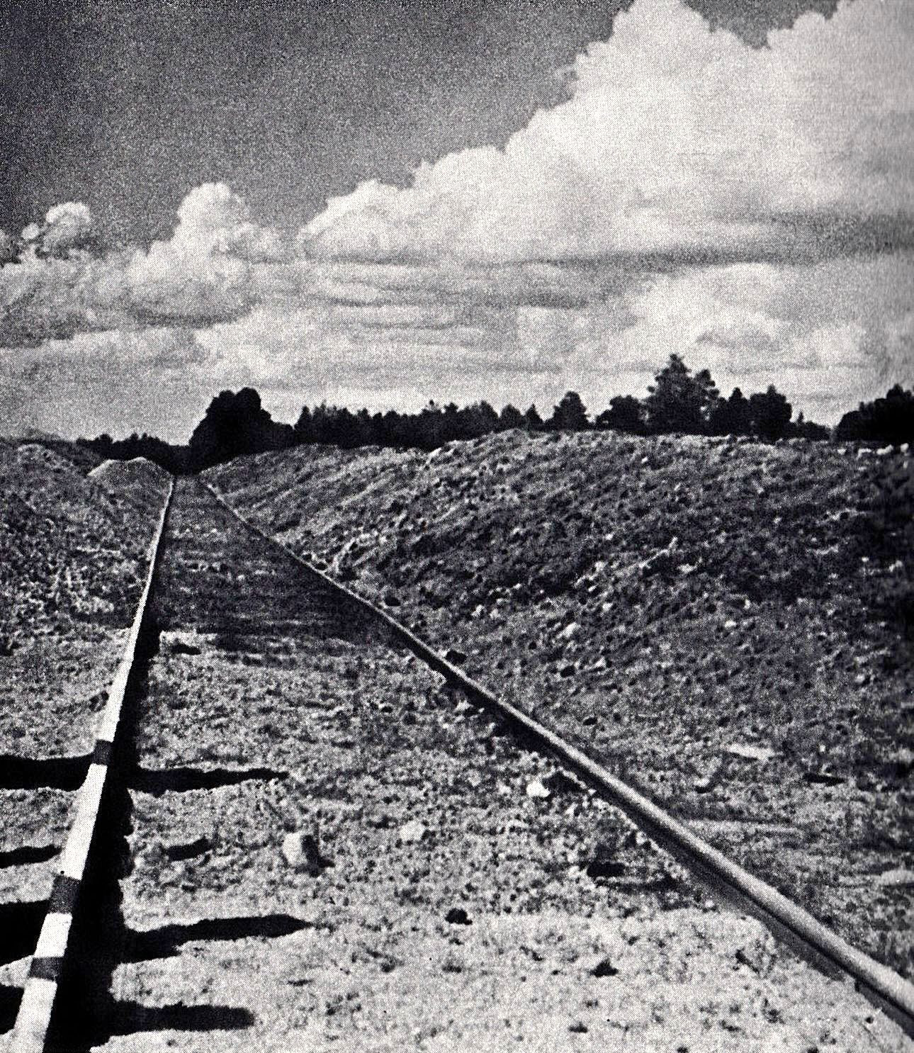 Railway line to the gravel quarry at Treblinka I